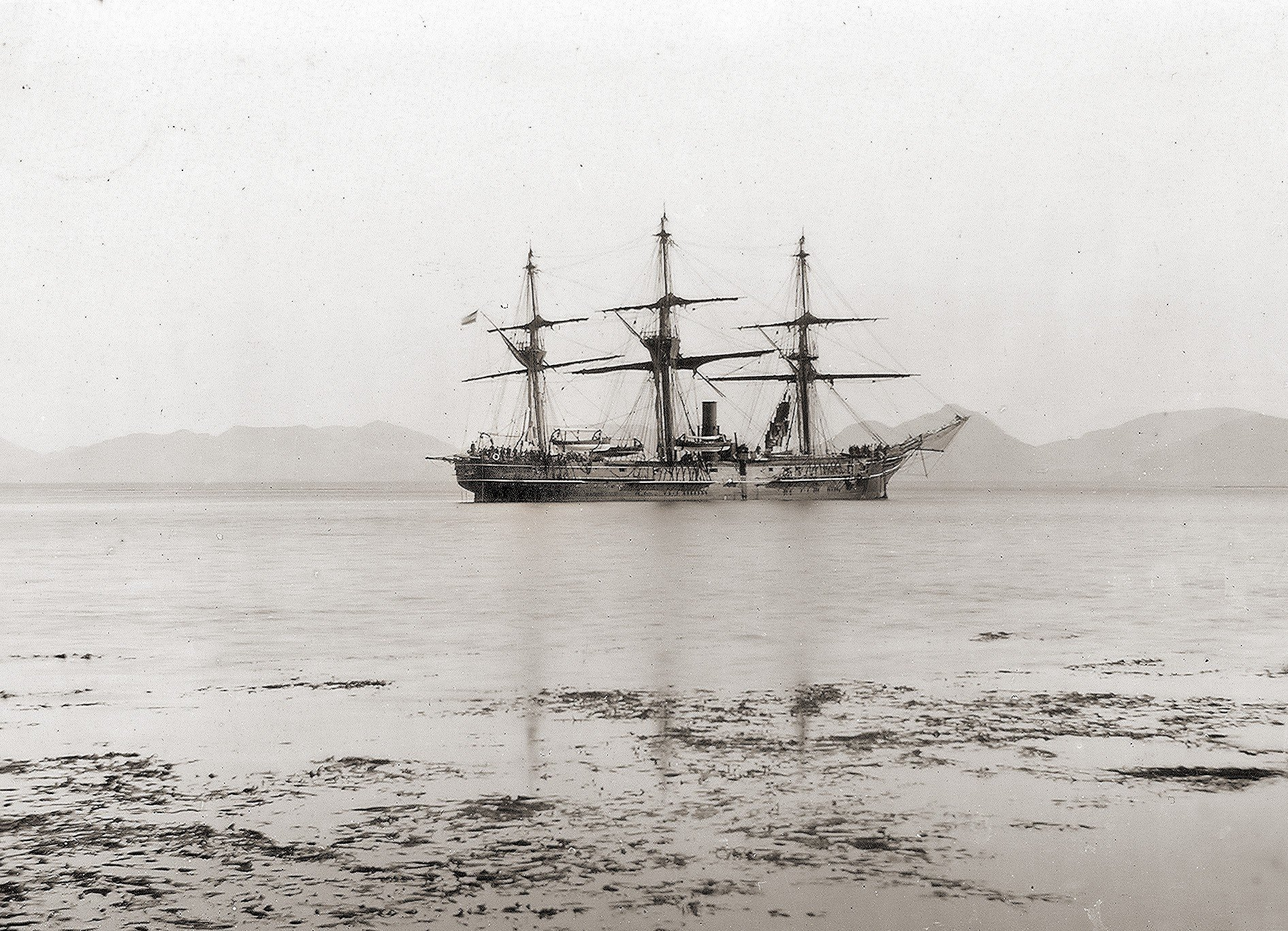 Photograph of the Dutch corvette Zilveren Kruis 1869-1889